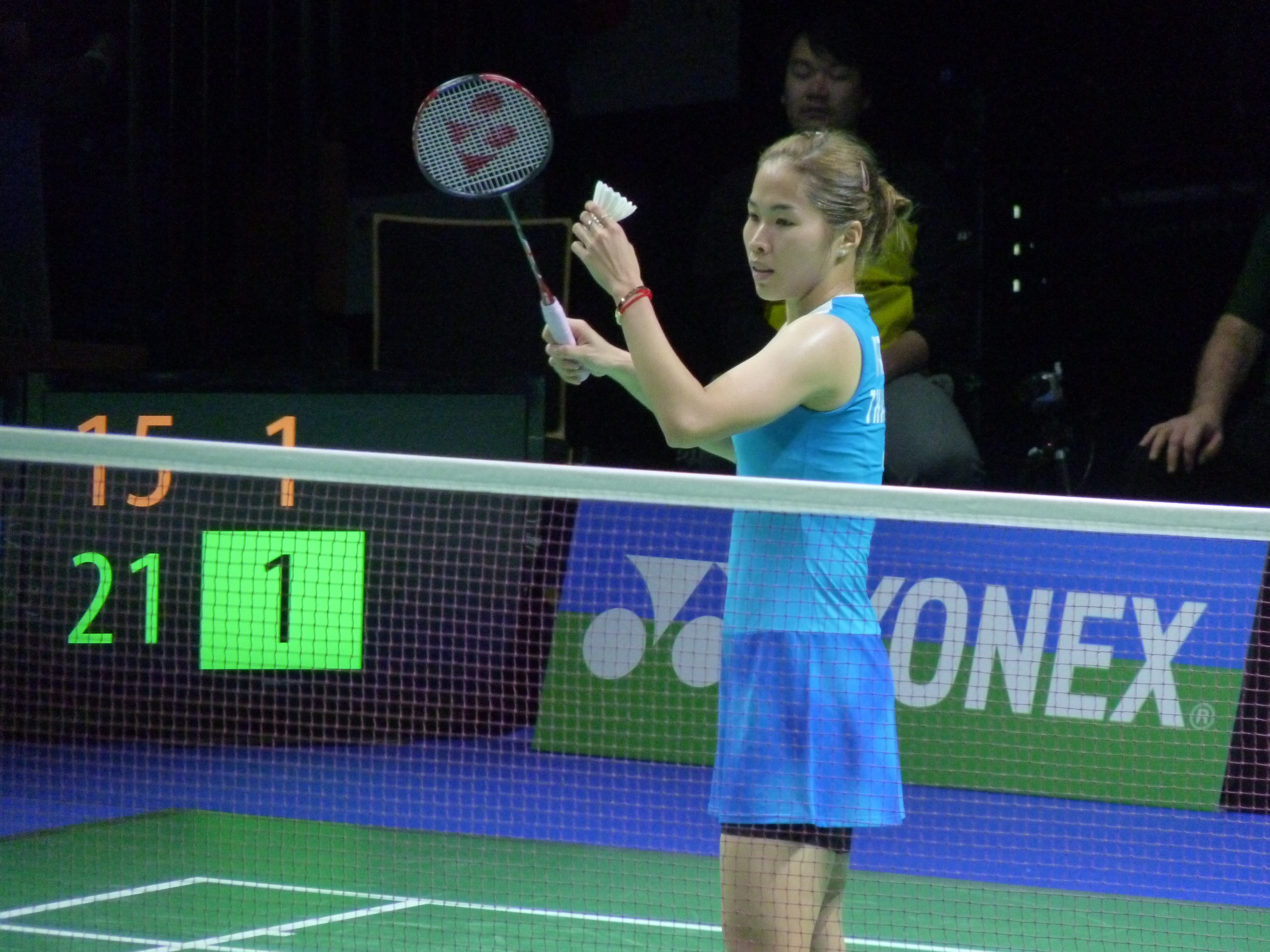 Ratchanok Intanon (Thailand) BWF Women's Singles World Champion 2013 & BWF World Junior Champion in 2009, 2010 & 2011